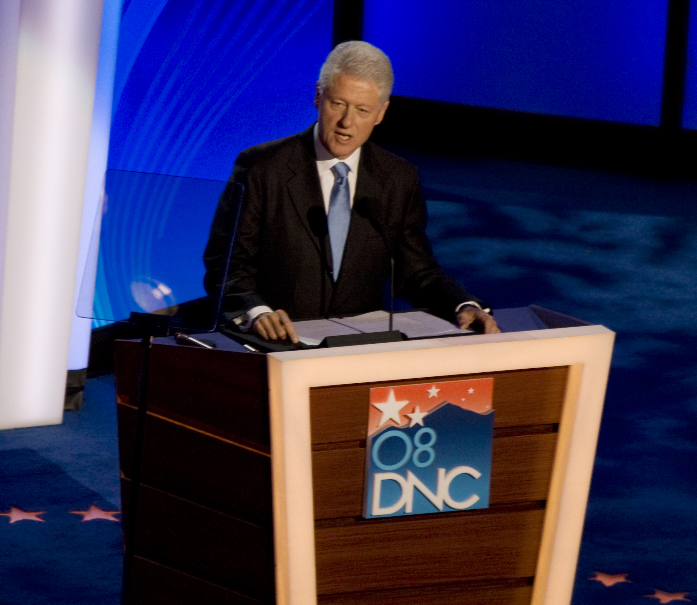 Bill Clinton speaks at the 2008 DNC